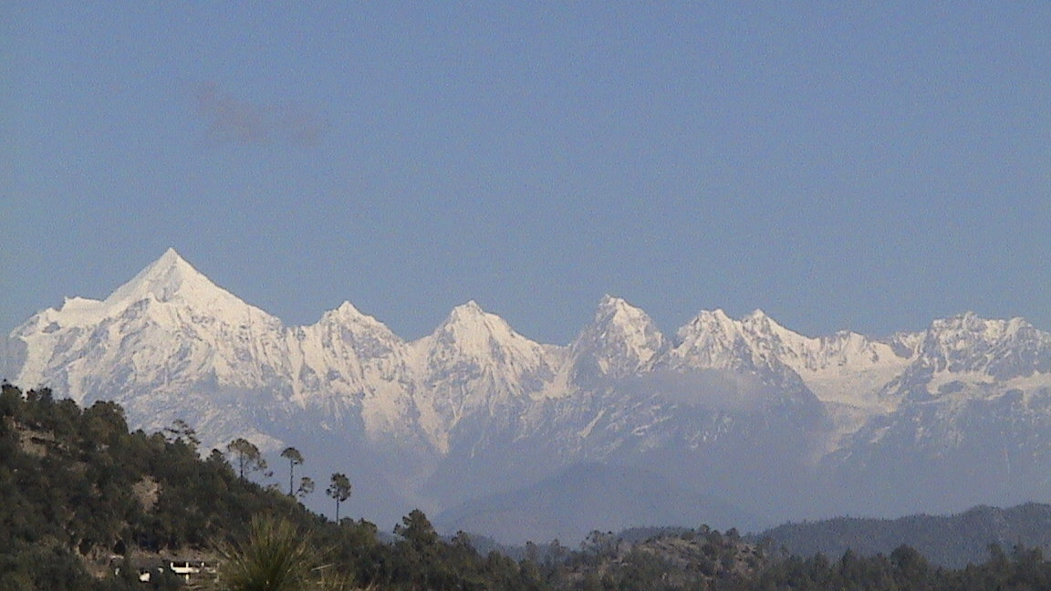 Panchchuli, taken from Chawkori.